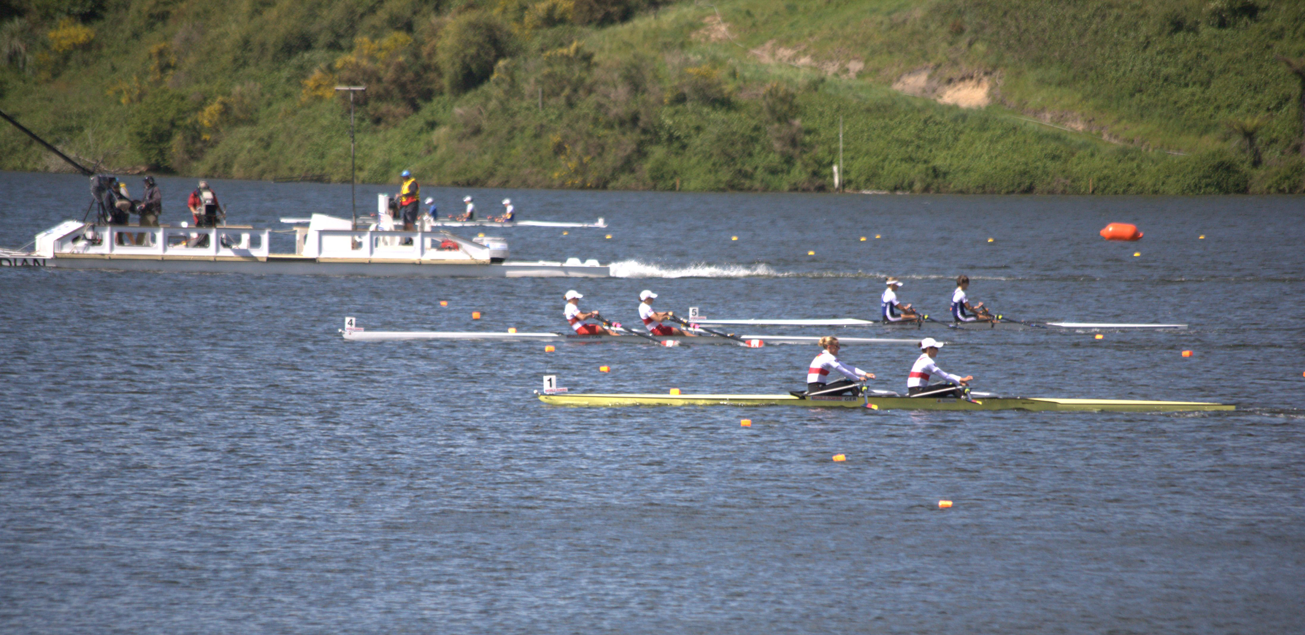 2010 World Rowing Championships: The three LW2x medal winning boats during the final - CAN (gold; lane 4) with Lindsay Jennerich and Tracy Cameron; GER (silver; lane 1) with Daniela Reimer and Anja Noske; GRE (bronze; lane 5) with Christina Giazitzidou and Alexandra Tsiavou